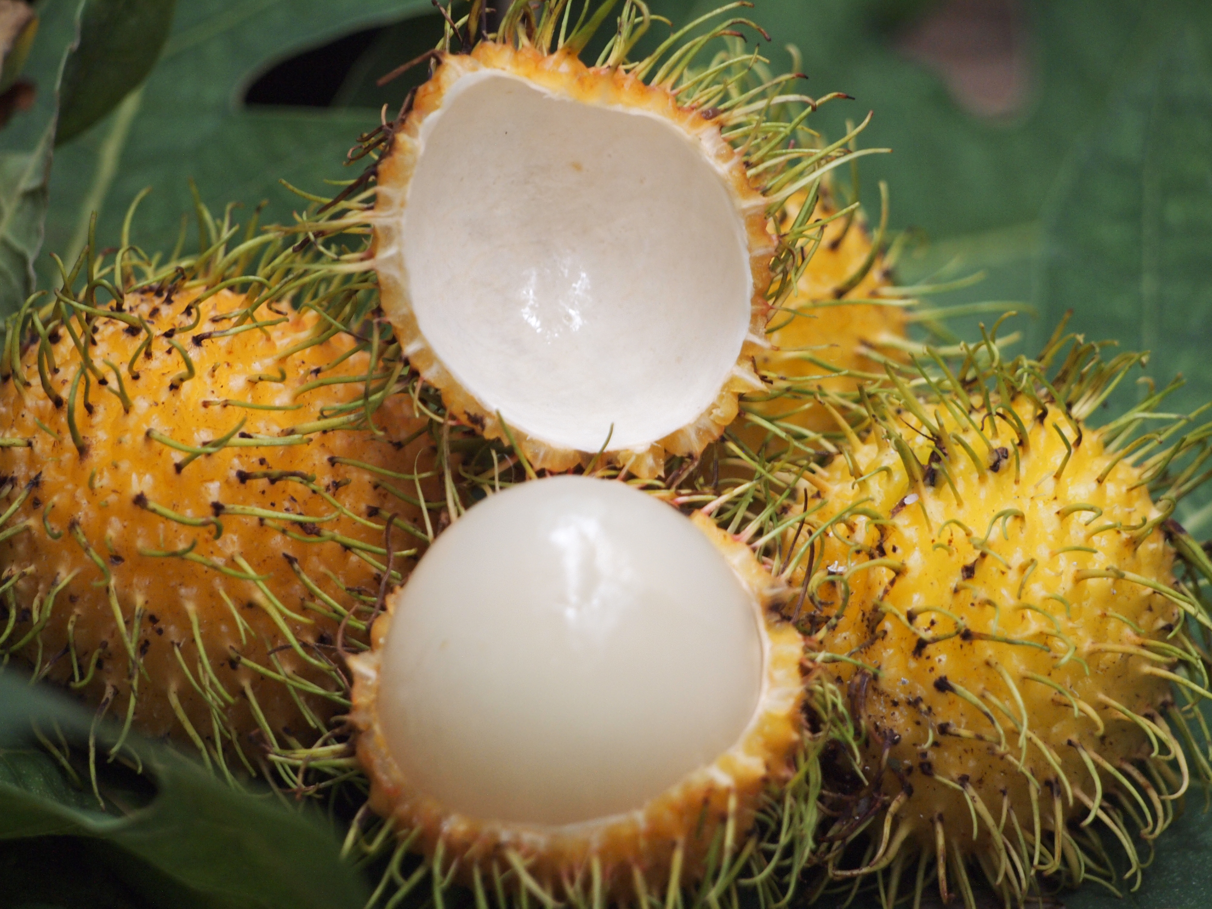 Nephelium lappaceum (Rambutan) in Malaysia